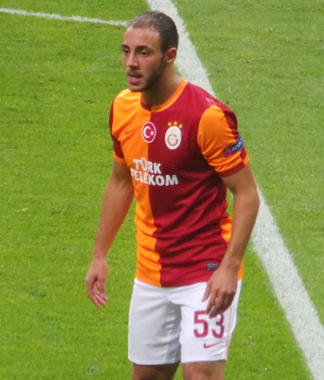 Amrabat with GS against R.M.